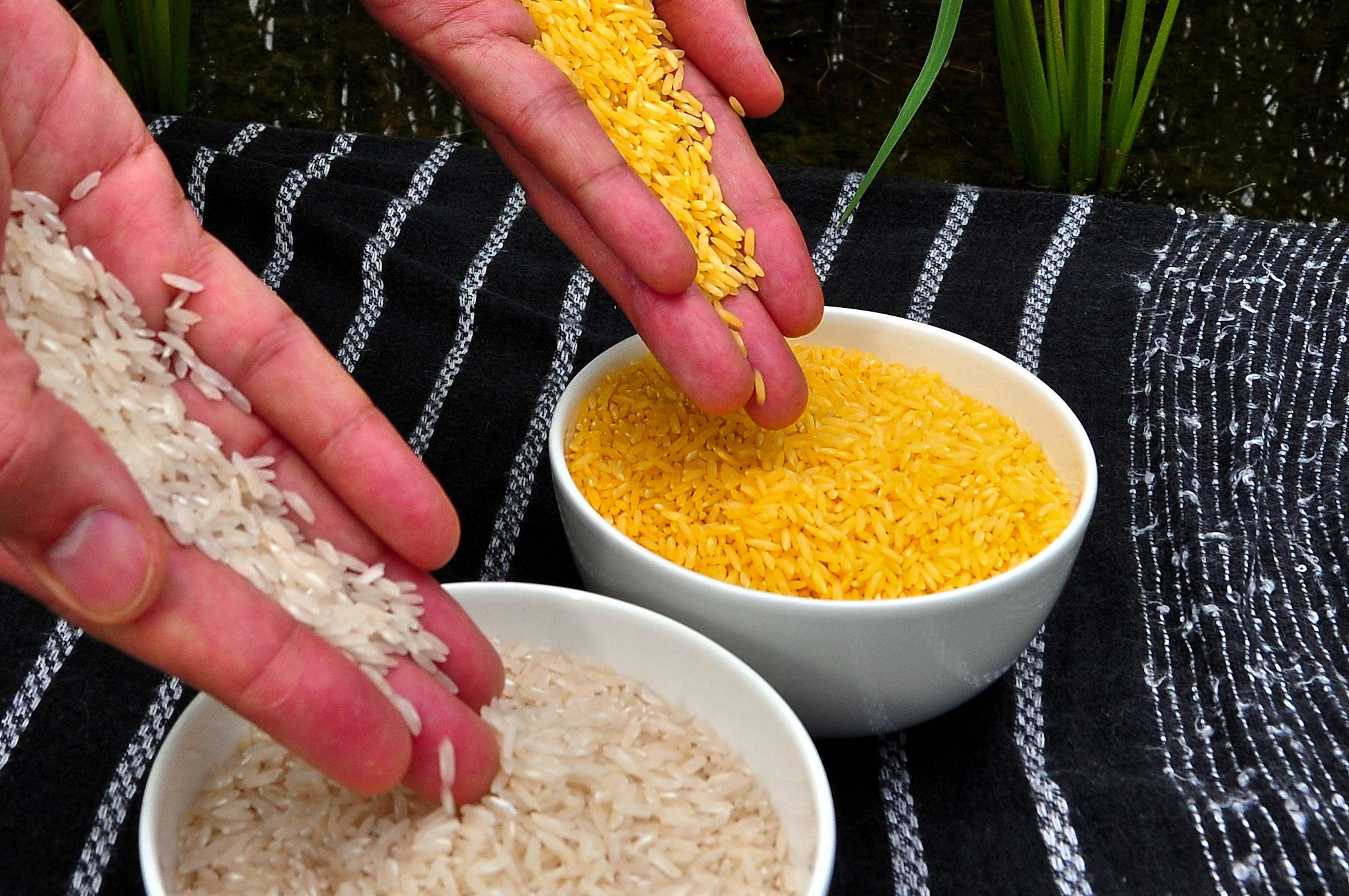 Golden Rice grain compared to white rice grain in screenhouse of Golden Rice plants.